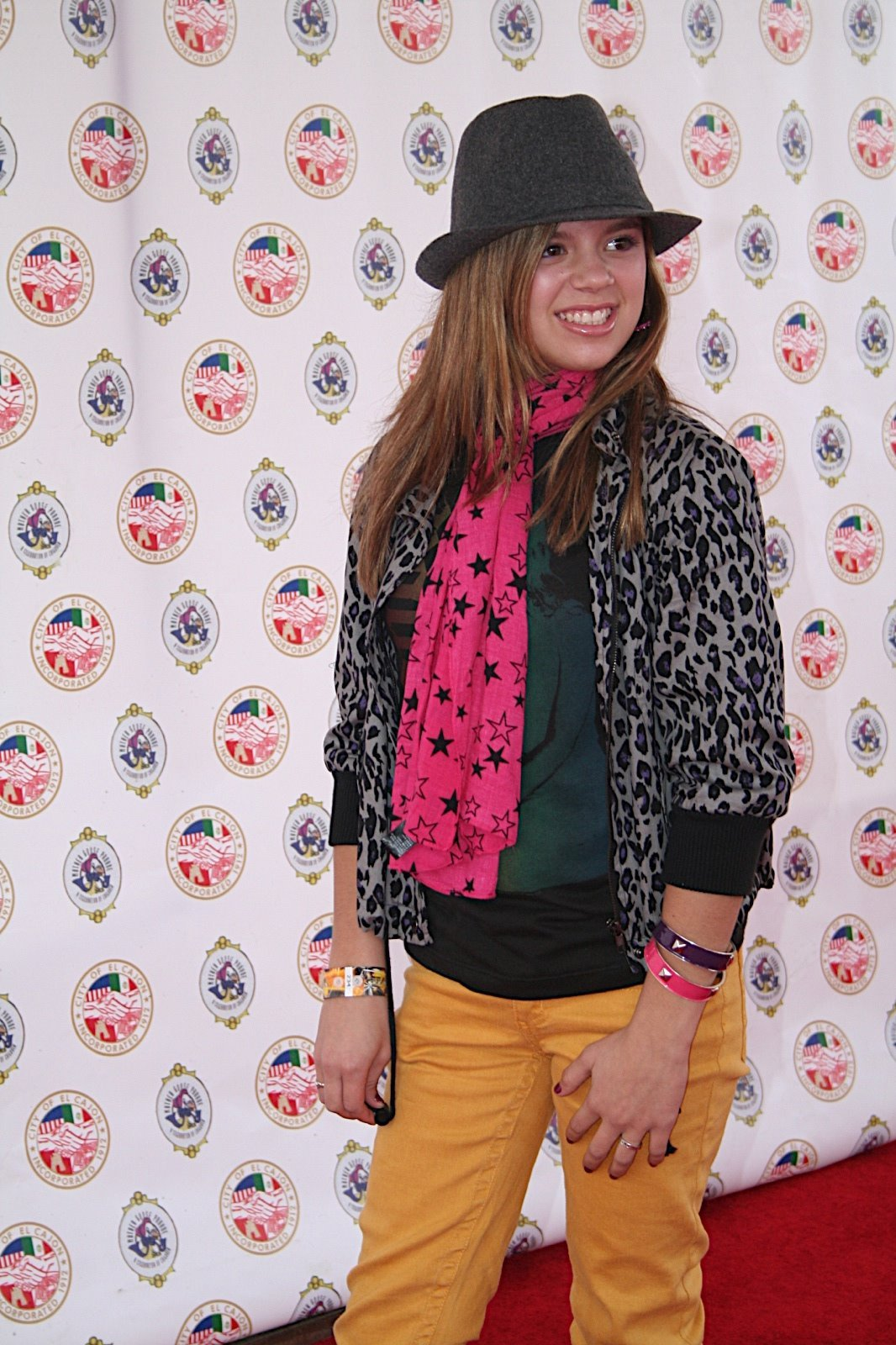 American actress Aria Wallace of Nickelodeon's "Roxy Hunter" on the red carpet at the 62nd Annual Mother Goose Parade in San Diego County. Photograph by Mother Goose Parade / Popular Press Media Group (PPMG) - . For more...